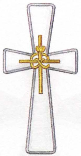 Badge of Keksgolmsky Life Guard Regiment